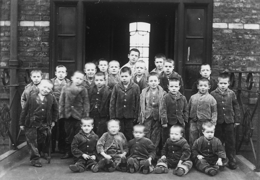 23 boys at Crumpsall Workhouse, circa 1895-1897